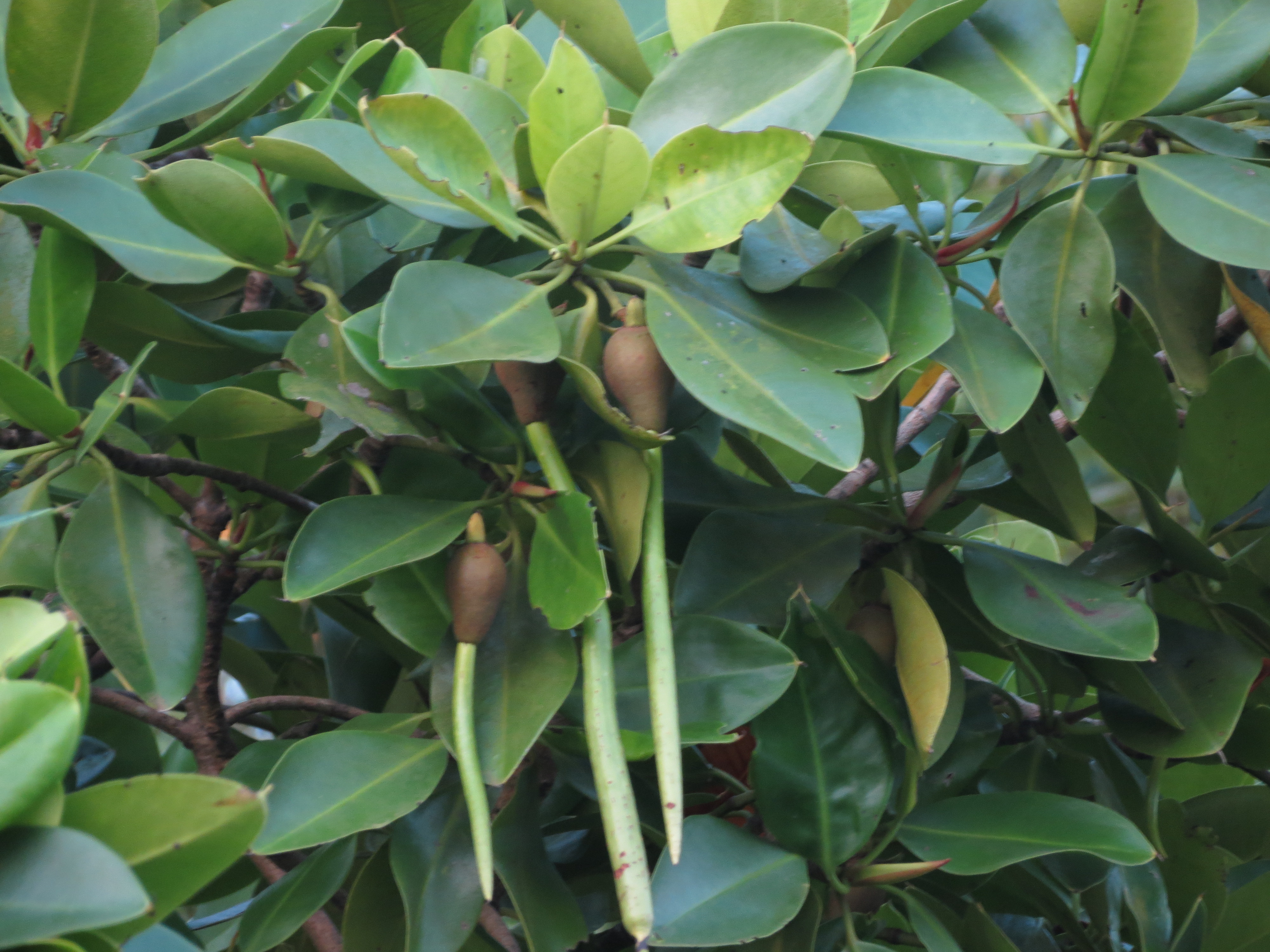 Rhizophora mucronata seen in Salim Ali bird sanctuary, Chorao, Goa, India